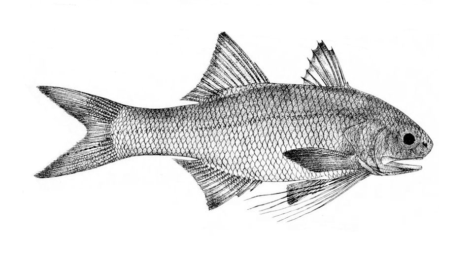 Filimanus heptadactyla. It has been extracted from File:Fishes of India. Atlas. Plate XLII.jpg.